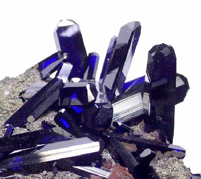 Azurite Locality: Tsumeb Mine (Tsumcorp Mine), Tsumeb, Otjikoto (Oshikoto) Region, Namibia (Locality at ) These crystals have the best , glassiest lustre you could ever want in a Tsumeb azurite and are ALL TRANSPARENT , GEMMY BLUE when backlit! The piece looks like it has blue glass glued to it....This is a remarkable specimen of large size and incredible condition, pristine on all major crystals. ex. Tom Hall Collection, purchased from dealer Rick Smith (in the 1970's). This is a truly fine display specimen of large size. Comes with custom-made lucite base. 9.5 x 9x 3 cm